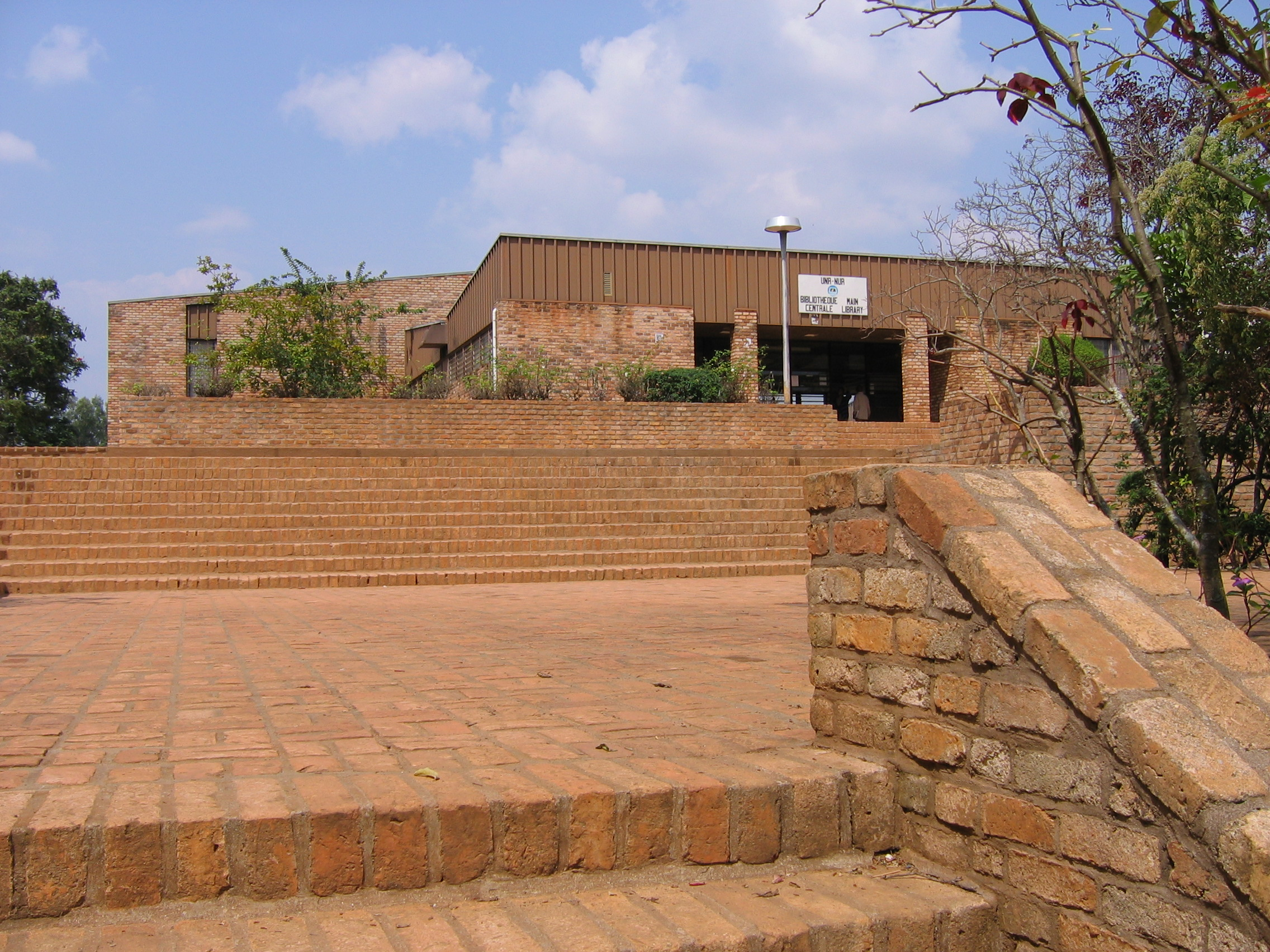 Central library of the National University of Rwanda in Butare